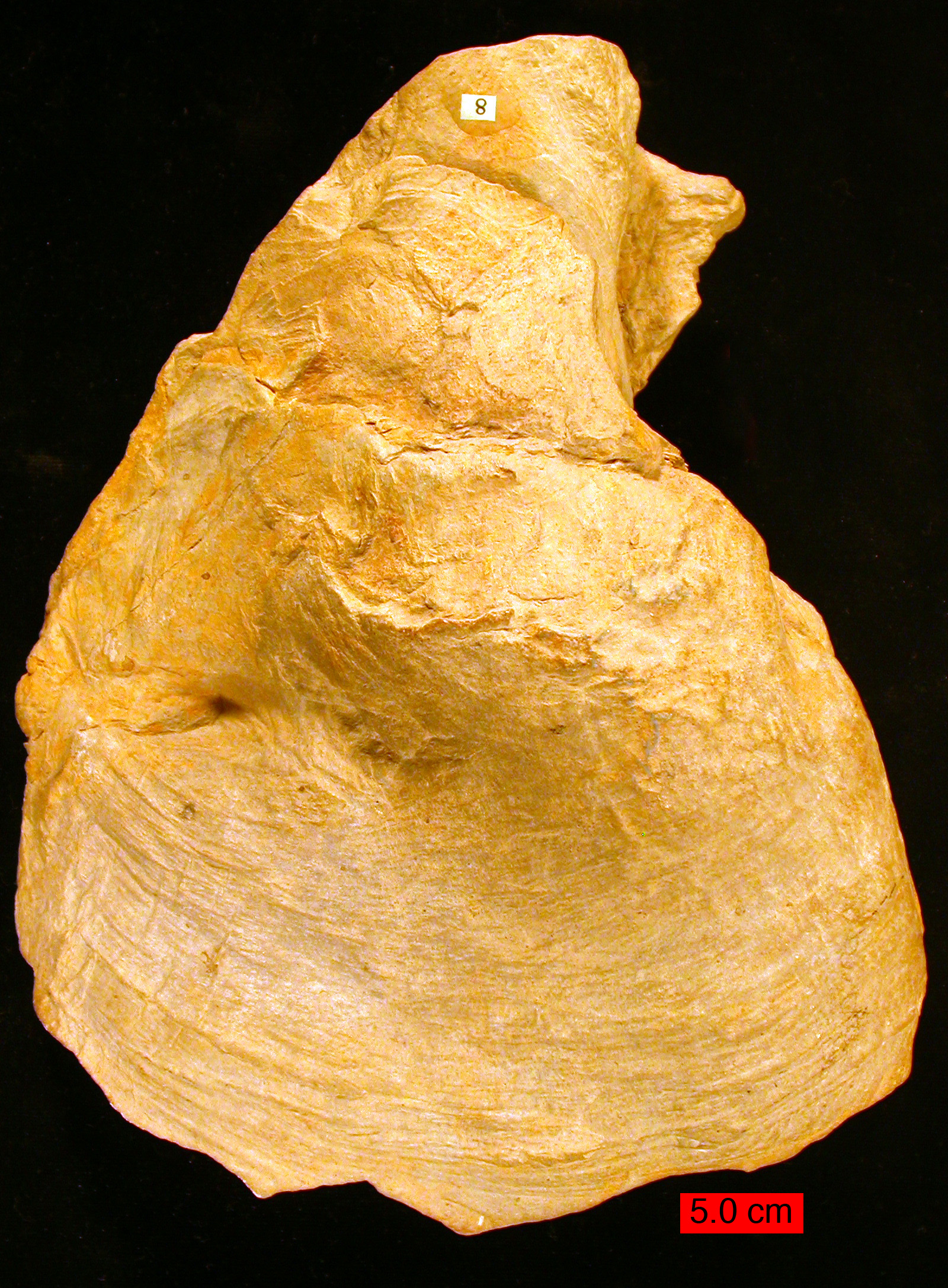 Zoophycos trace fossil from the Mississippian of northern Kentucky. Scale bar is 5.0 cm.